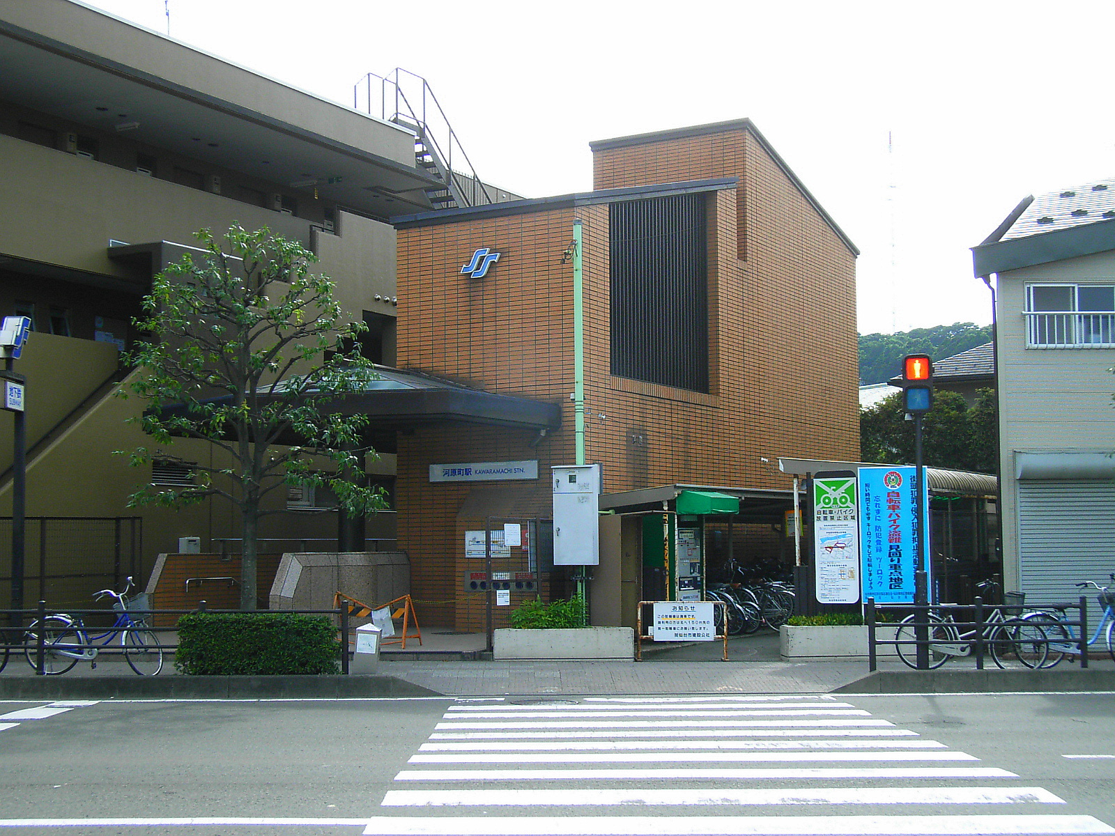 Kawaramachi Station of the Sendai Subway. Sendai, Miyagi prefecture, Japan.